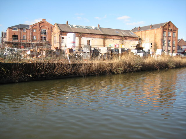 Site of Worcester Porcelain Works This was the site of Worcester Porcelain Works before it closed, the area which is beside the Worcester to Birmingham Canal is being redeveloped.